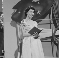 Raquel Rastenni at the 1958 Eurovision Song Contest in Hilversum